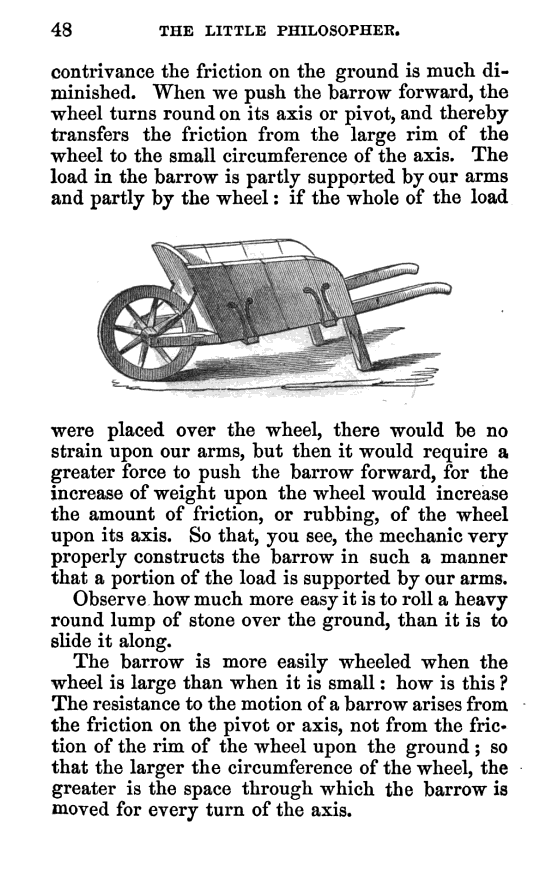 Illustration of a wheelbarrow, from p. 48 of The Little Philosopher, Or The Science of Familiar Things vol. 1 (1863 edition), by Thomas Tate.